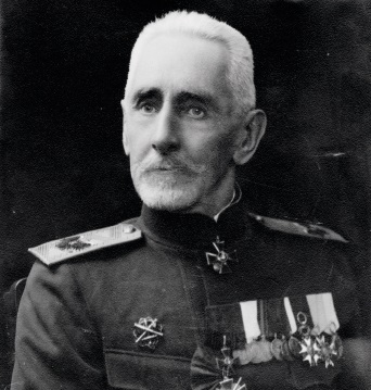 Admiral Yevgeniy Vladislavovich Klupfel